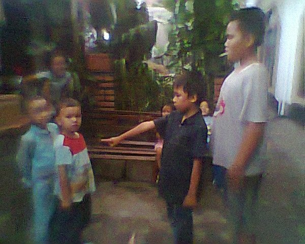 Ambil-ambilan